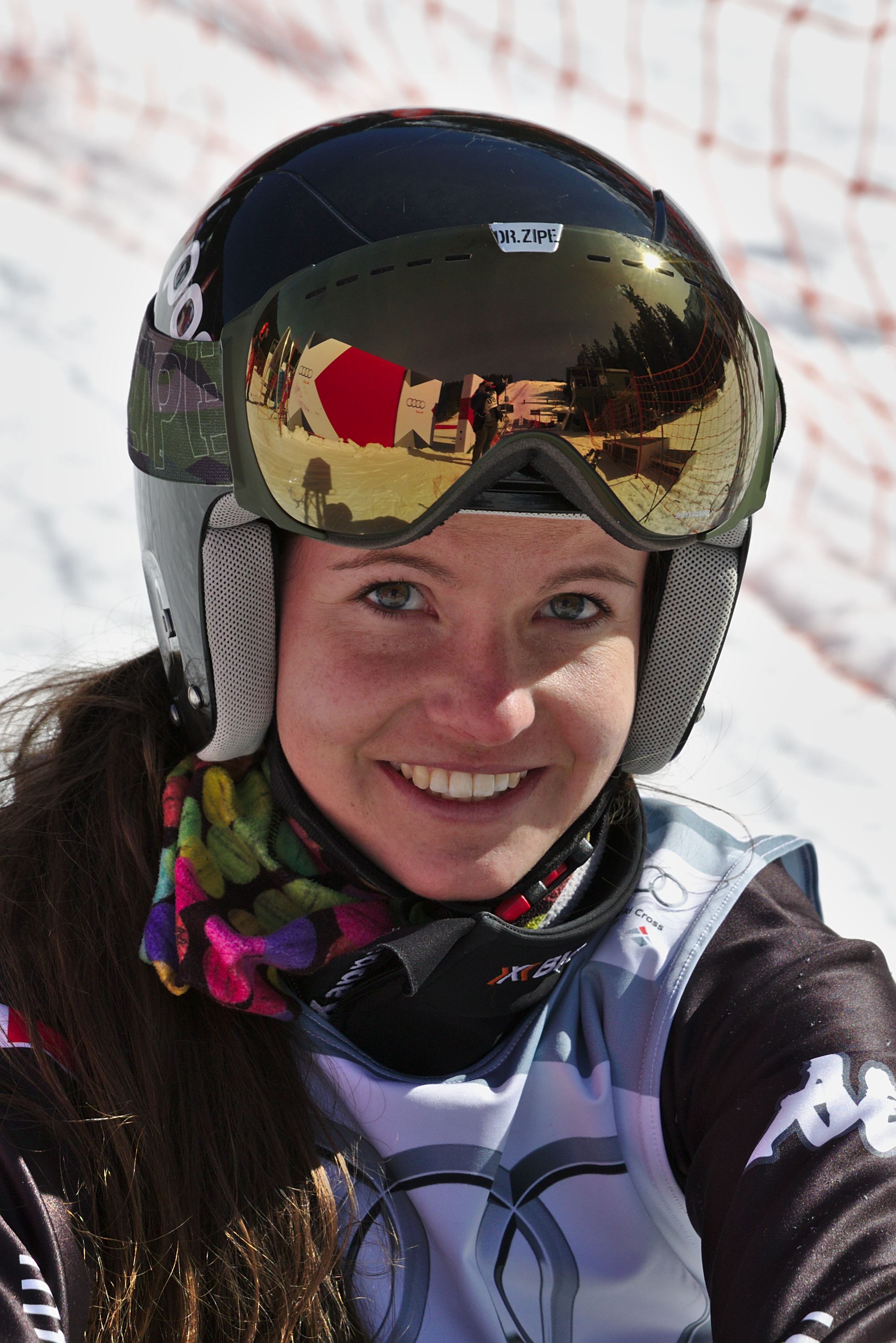 FIS Ski Cross World Cup 2015 - Megève - 20150313 - Debora Pixner